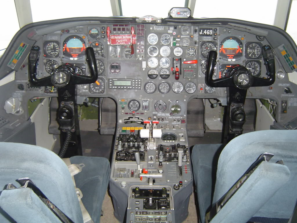 The cockpit of a Dassault Falcon 20 (DA-20) jet aircraft, in service with the Pakistan Air Force and fitted with electronic warfare equipment, parked in a hangar at an airbase in Pakistan. It is operated by the PAF's No. 24 Blinders Squadron and is nicknamed "Iqbal" after a Pakistani war veteran.